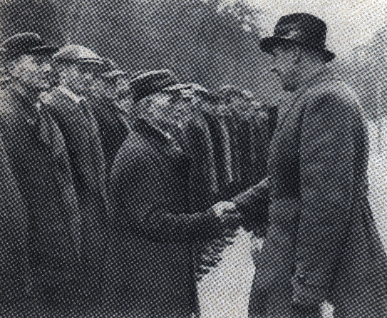 Training of the Nazi-German “fifth column” in Reptowski forest near Ostromecko in autumn 1938. One of the agents reports to the SS-Oberführer Ludolf-Hermann von Alvensleben.